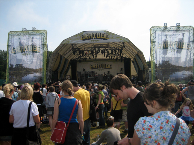 The Obelisk Arena